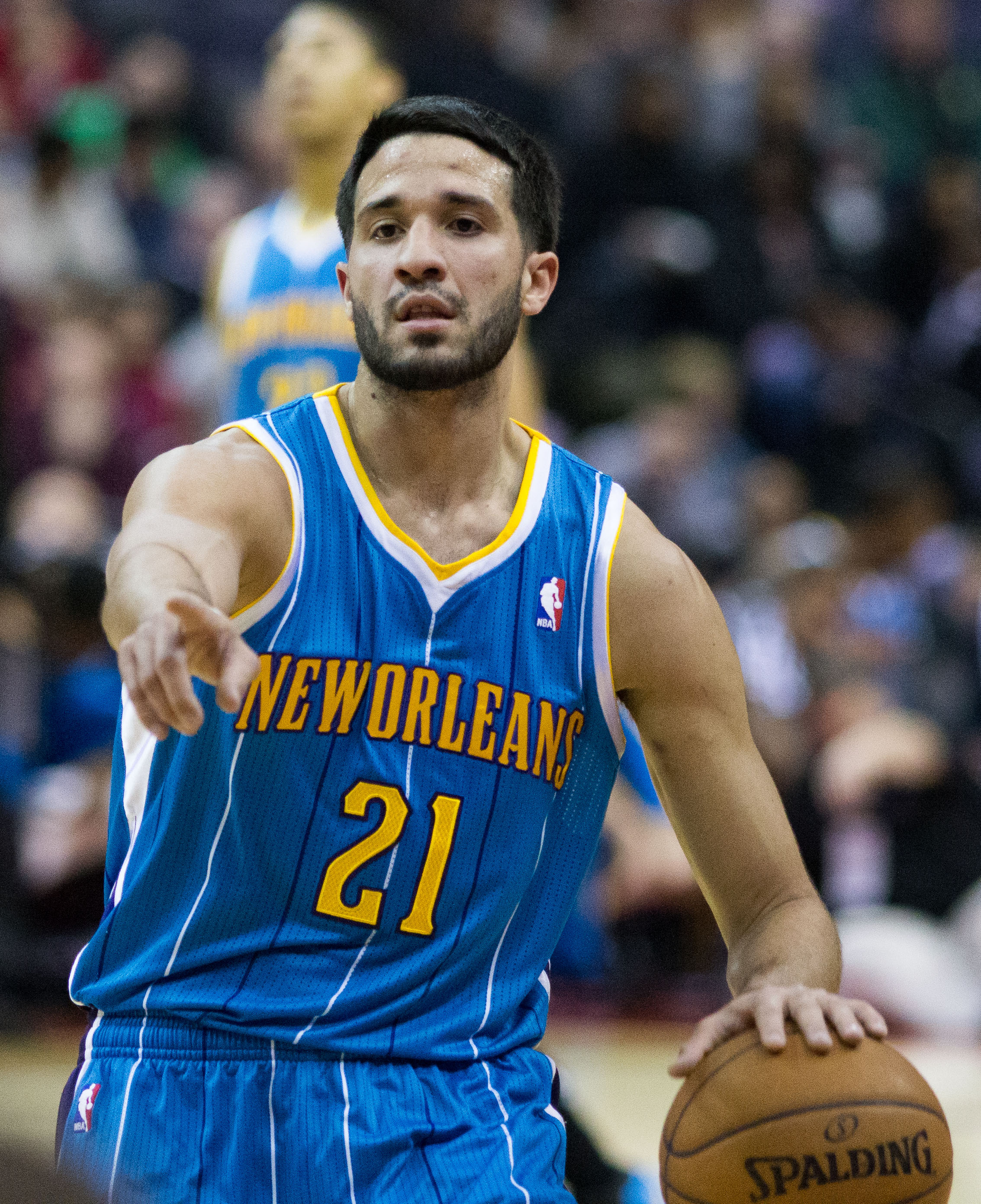 New Orleans Pelicans at Washington Wizards March 15, 2013